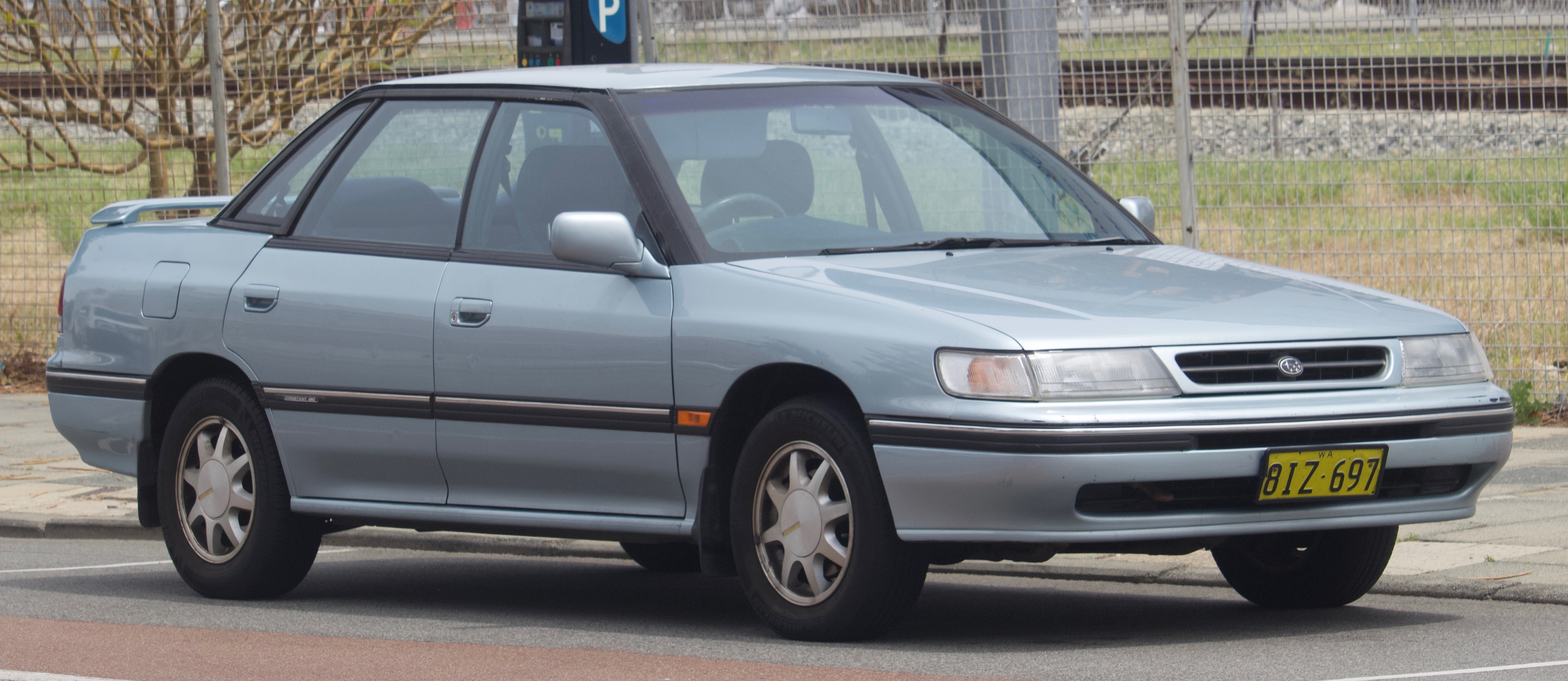 1991-1994 Subaru Liberty (BC7) GX 4WD sedan. Photographed in Fremantle, Western Australia, Australia.